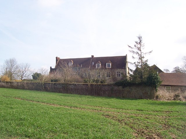 Boughton Place On Boughton Road, Boughton Malherbe. Seen from Greensand Way (long distance path) from Headcorn Road.